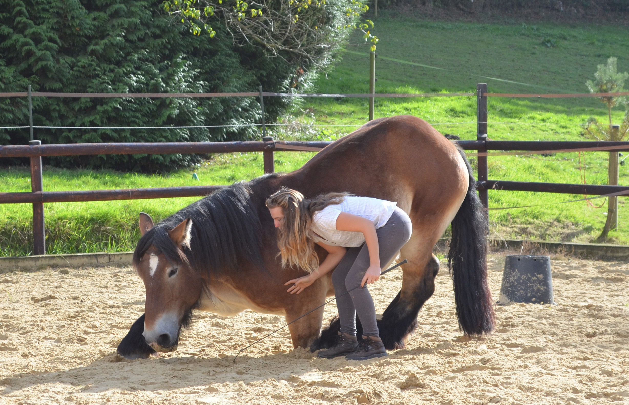 Mare Trait du Nord make reverence.